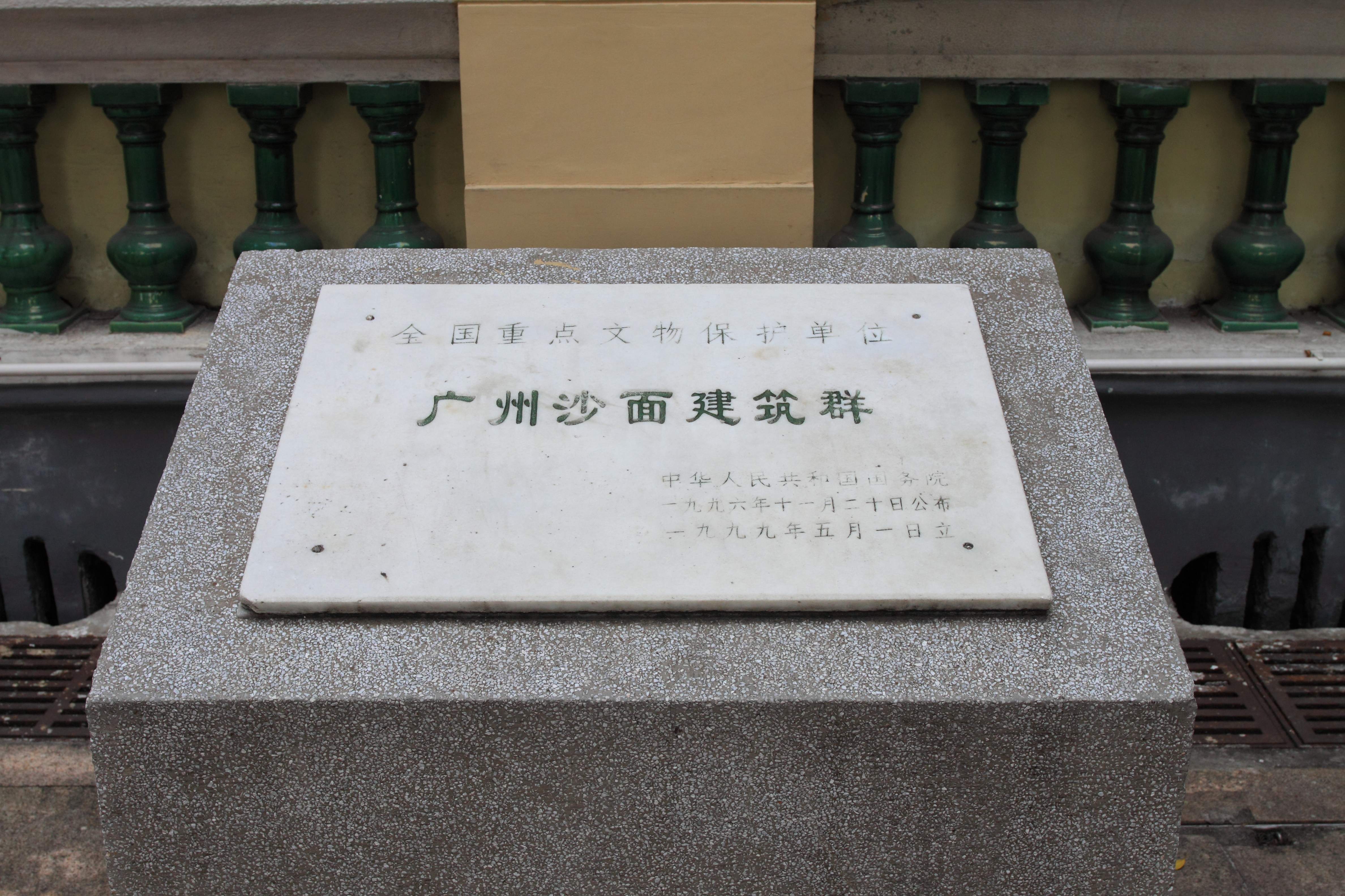 Shamian Island，in Guangzhou, Guangdong, China.